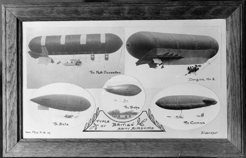 Aviation in Britain Before the First World War Postcard montage of five British Army Airships, the Nulli Secundus, Dirigible No 2, the Beta, the Baby and the Gamma.